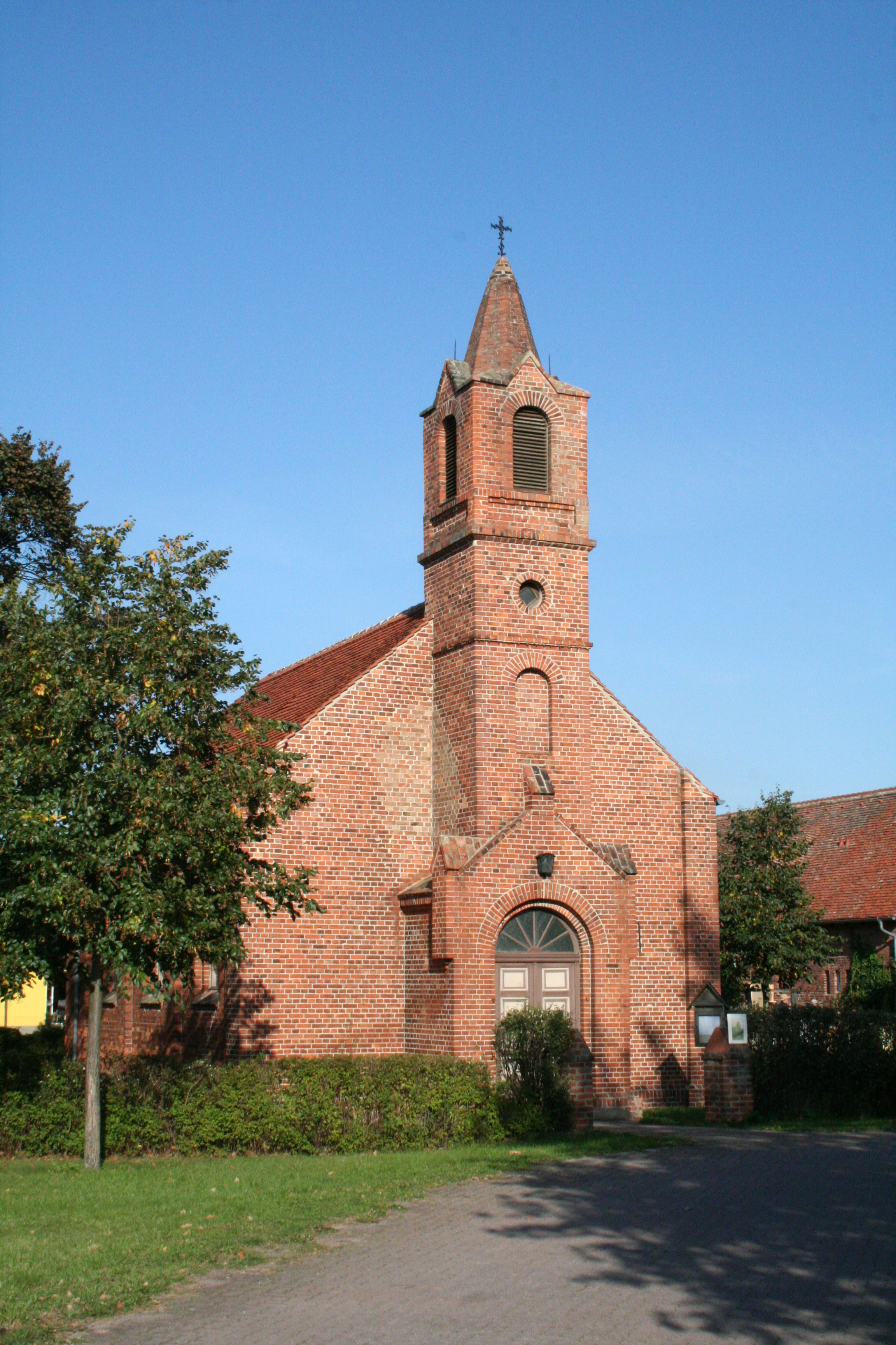 Church in Altlewin, Brandenburg, Germany